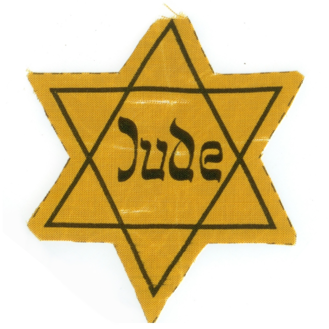 The Star of David which was marked by Jews during the Second World War. Found in Bielsko, Silesia, Poland (During the war the area was incorporated into the German Third Reich - Provinz Oberschlesien)